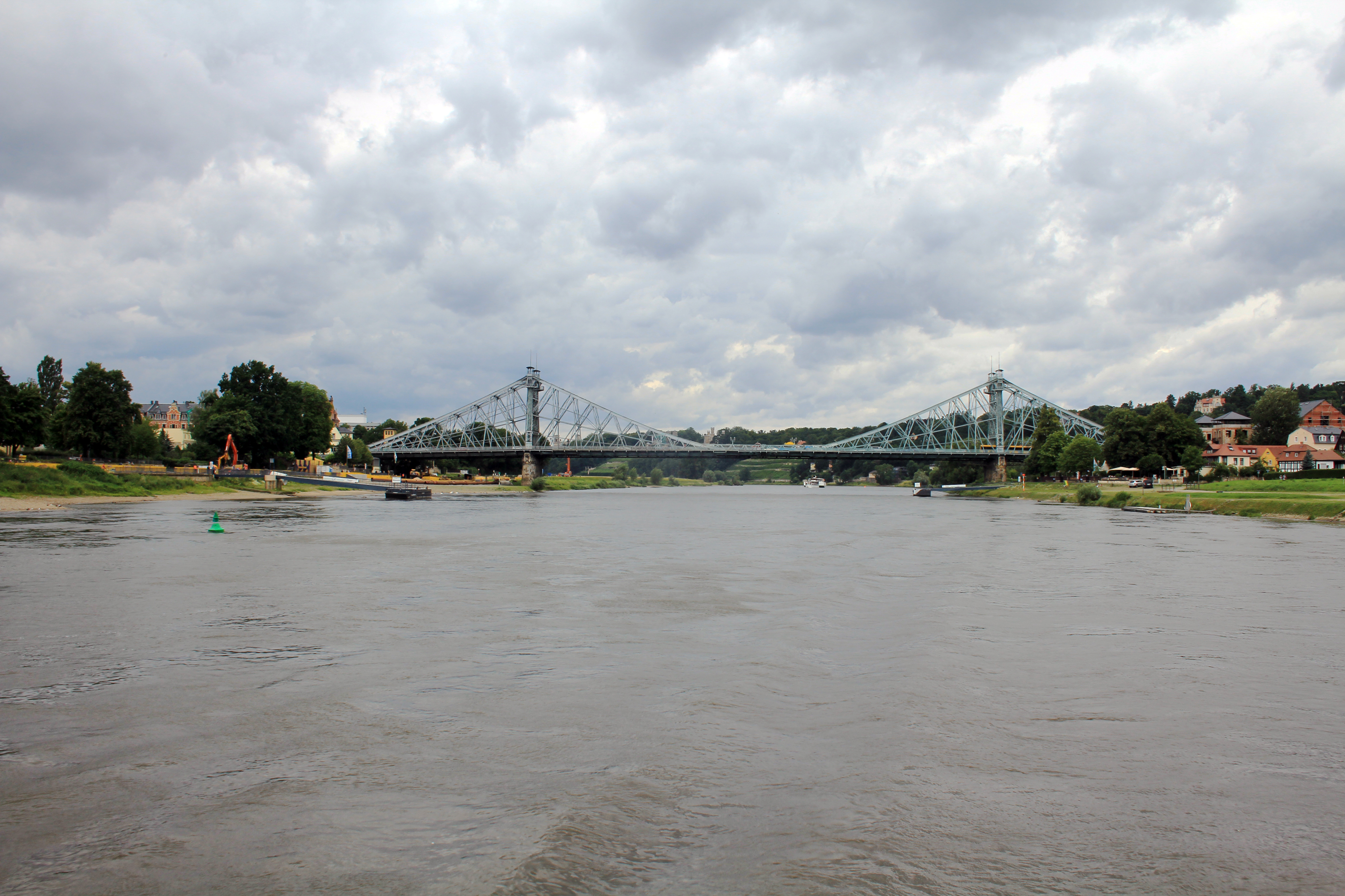 View on bridge Blue Wonder from boat on Elbe river near of Dresden town in Germany